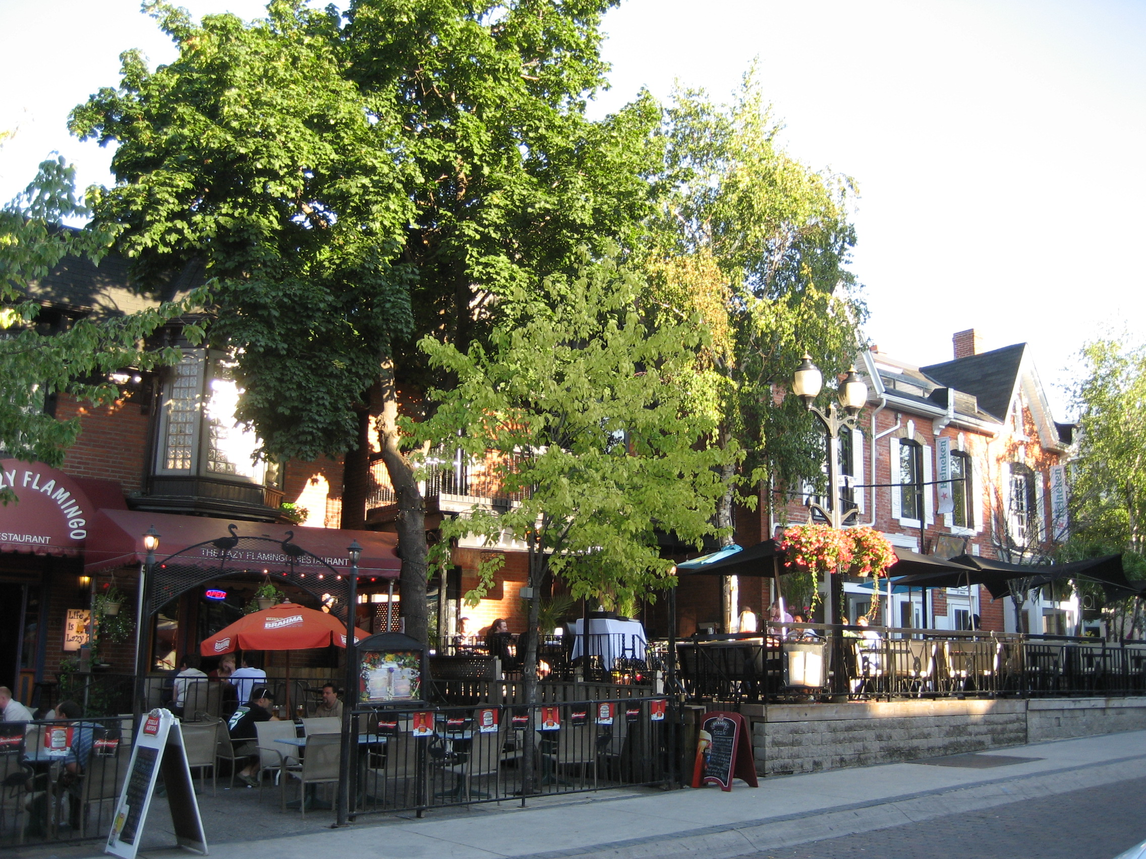 Hess Village, Hamilton, Canada.